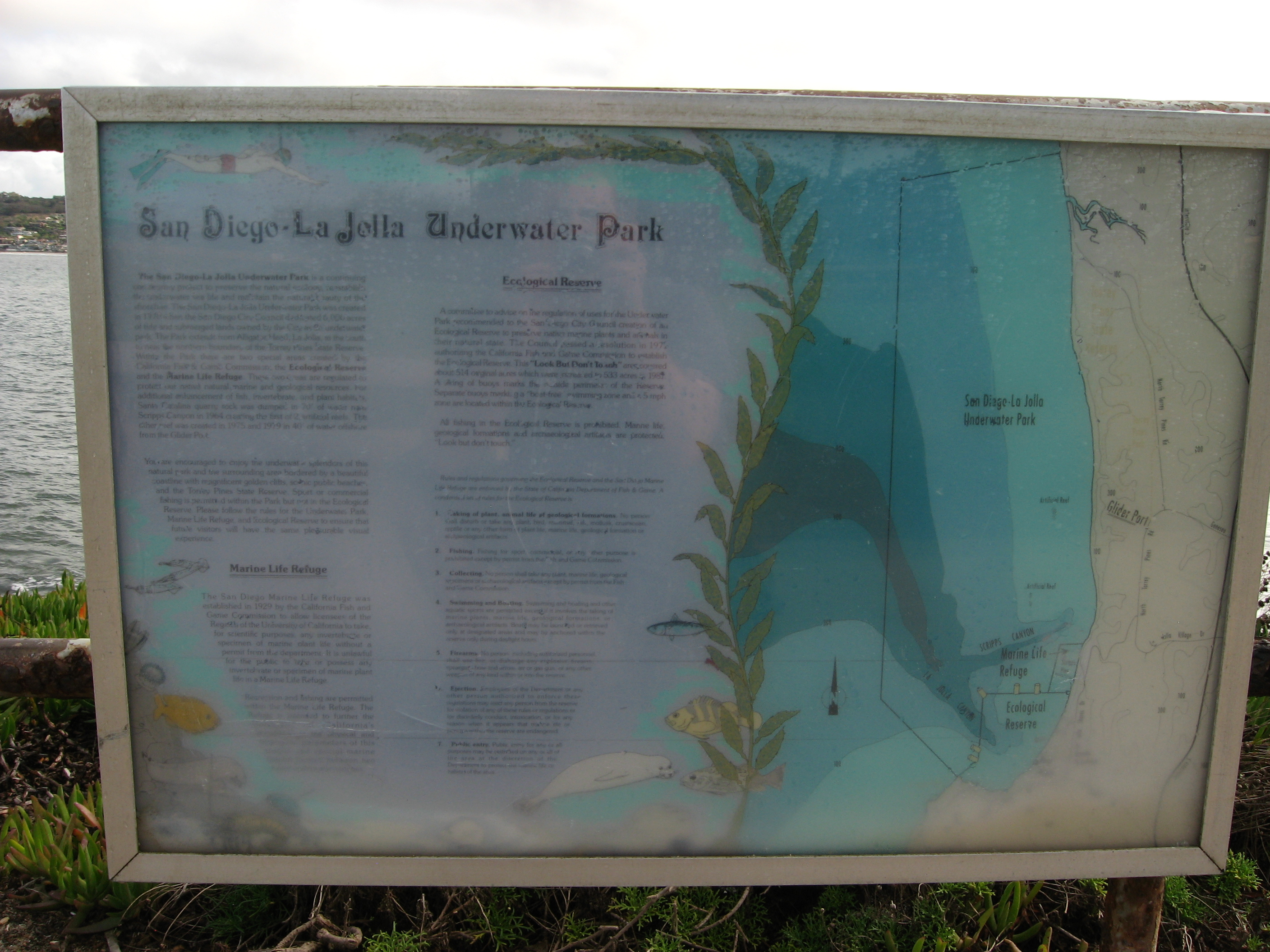 La Jolla Cove is a cove and a beach in La Jolla, San Diego, California. It is a very small beach within walking distance from the Children's Pool Beach. Scripps Park, a grassy area commonly used for picnicking, is located on the bluffs above the beach. La Jolla Cove is popular for swimming, scuba diving and snorkelling. However, since La Jolla Cove is within the San Diego-La Jolla Underwater Park (a marine refuge area), swimming devices such as surfboards, boogie boards, and even inflatable mattresses are not permitted, and this rule is carefully enforced by the lifeguards, specifically in the part of the area defined as the Ecological Reserve. Just a short swim away to the right on the coast is "Sunny Jim Cave." It is also accessible from a nearby store, which charges a nominal fee to go down a staircase leading to the cave.